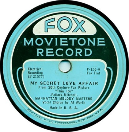 The Fox Movietone